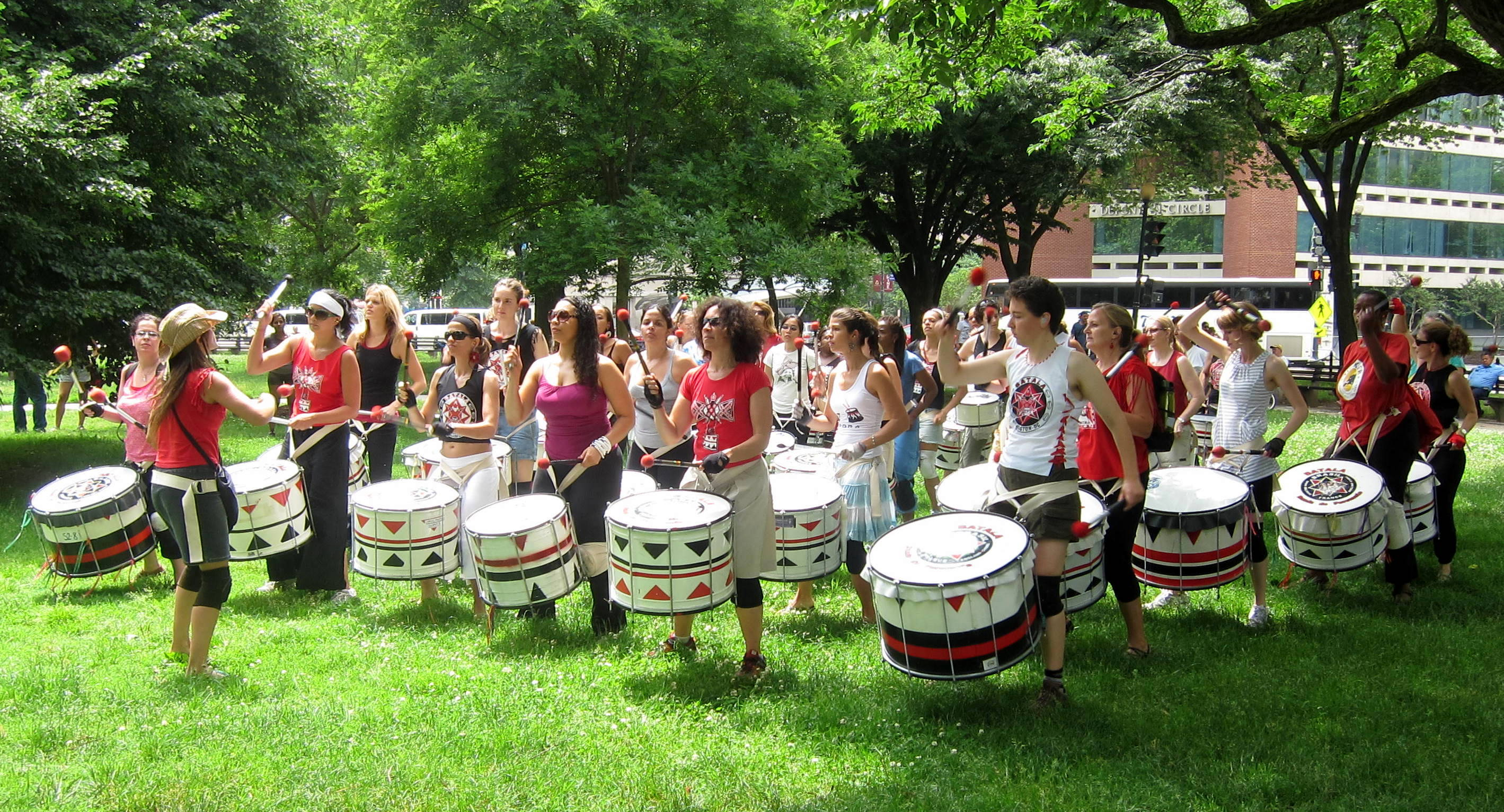 Batala Washington, D.C., an all-woman percussion band founded in 2007, performing in Dupont Circle.